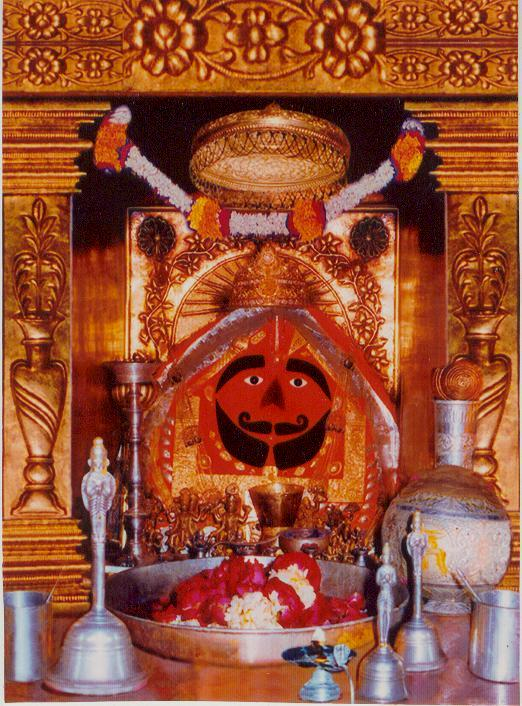 Salasar balaji a famous hindu temple, situated in the Churu region of Rajasthan is a religious place on the Jaipur- Bikaner Highway.